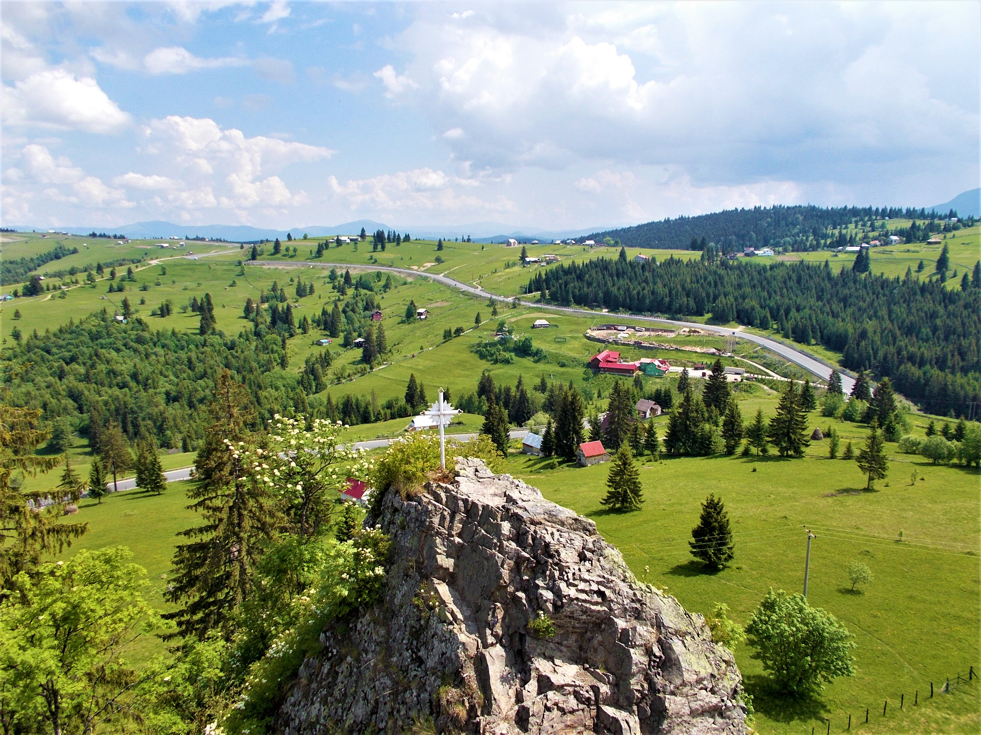 Tihuța Pass, Romania